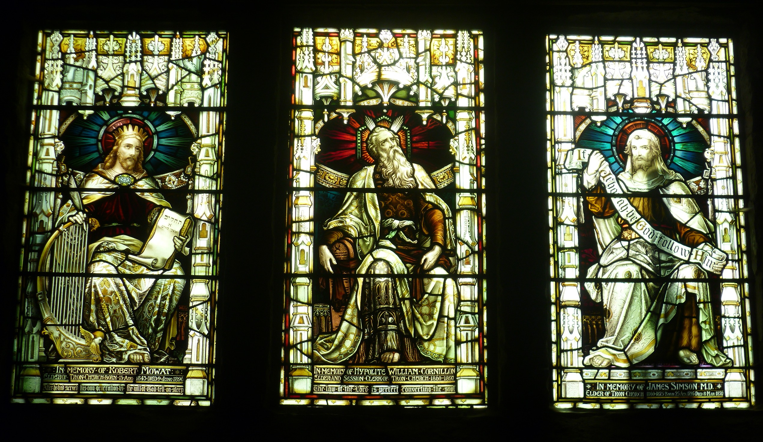 Victorian stained-glass windows commemorating three elders of the Tron Kirk, Edinburgh: (from l. to r.) Robert Mowat (1845-96), Hypolite William Cornillon (1860-97) and James Simson (1795-1876)